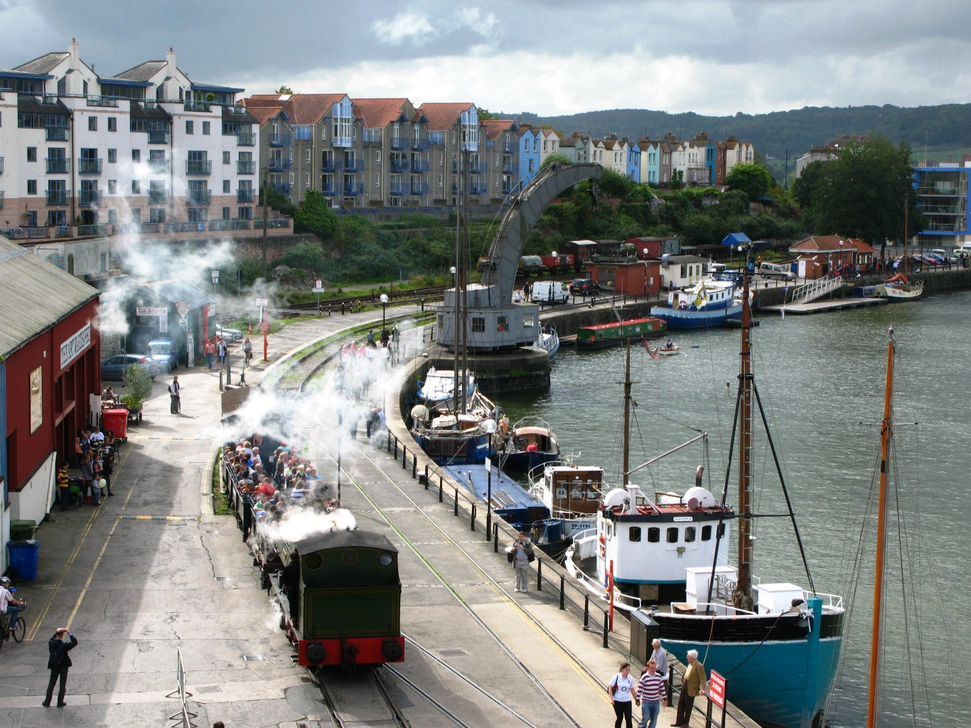 Peckett 0-6-0ST Henbury propels its train away from Prince's Wharf in Bristol. After passing the Fairbairn Steam Crane it will take the left junction and head off to the Create Centre.